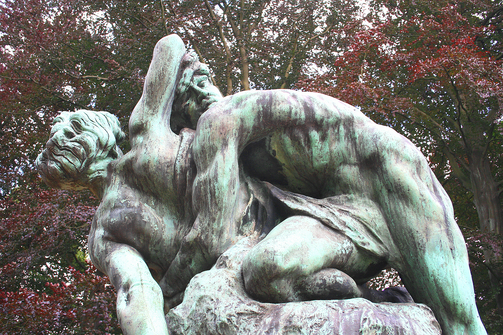 Morlanwelz (Belgium) - Parc de :Mariemont - Le Triomphe de la femme (The Triumph of the Women) sculpture by Jef Lambeaux (1901).